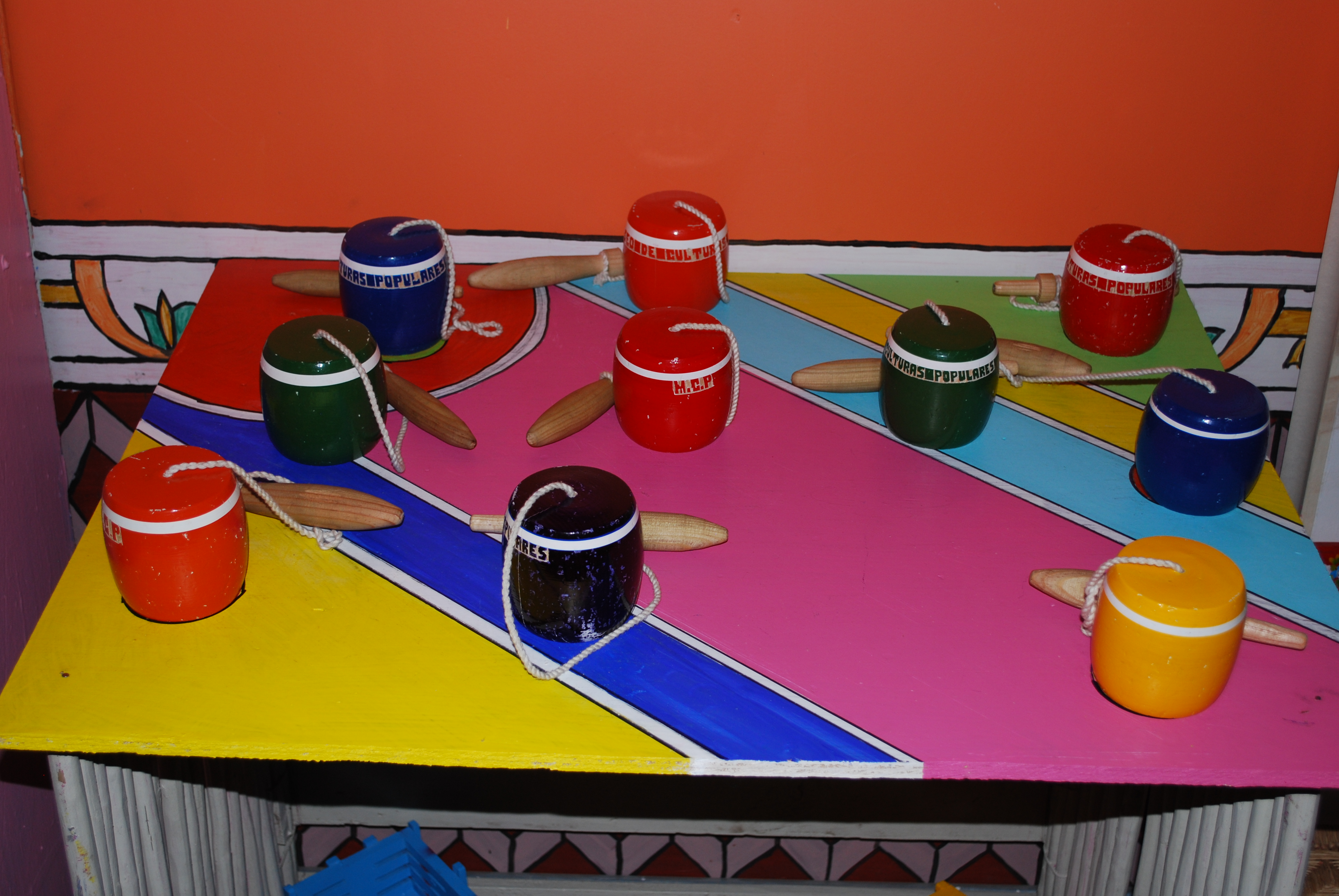 Cup game on display at the toy room of the Museo de Culturas Populares at the Centro Cultural Mexiquense in Toluca